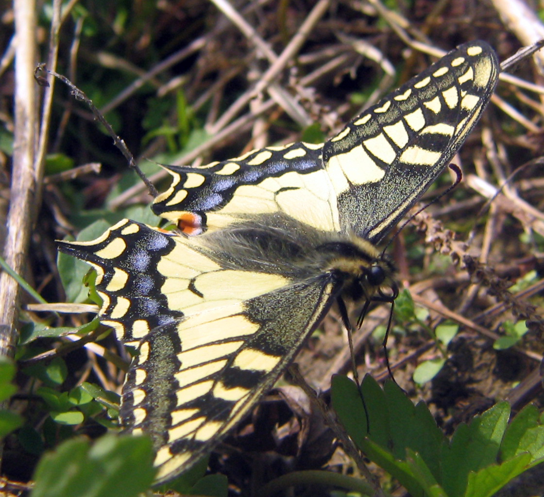 yellow and black butterfly, photographed in southern Romania, hilly area, found in a clearing near a river Papilio machaon, compare [1]